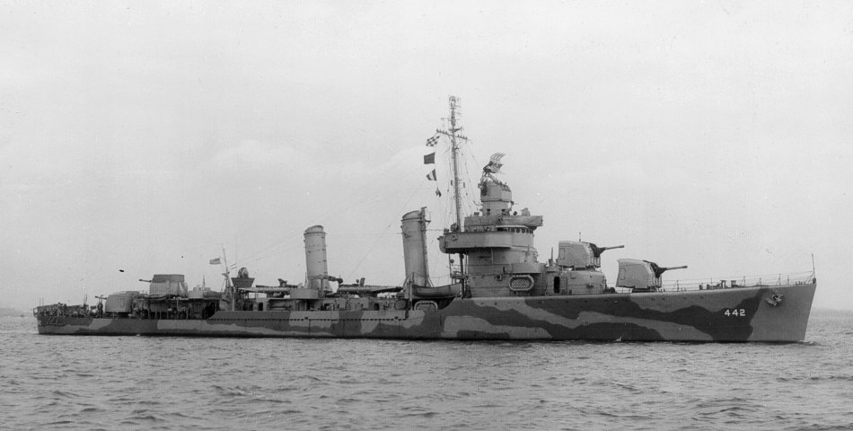 The U.S. Navy destroyer USS Nicholson (DD-442) off the Boston Navy Yard, Massachusetts (USA), on 18 April 1942. She is painted in Camouflage Measure 12 (Modified).